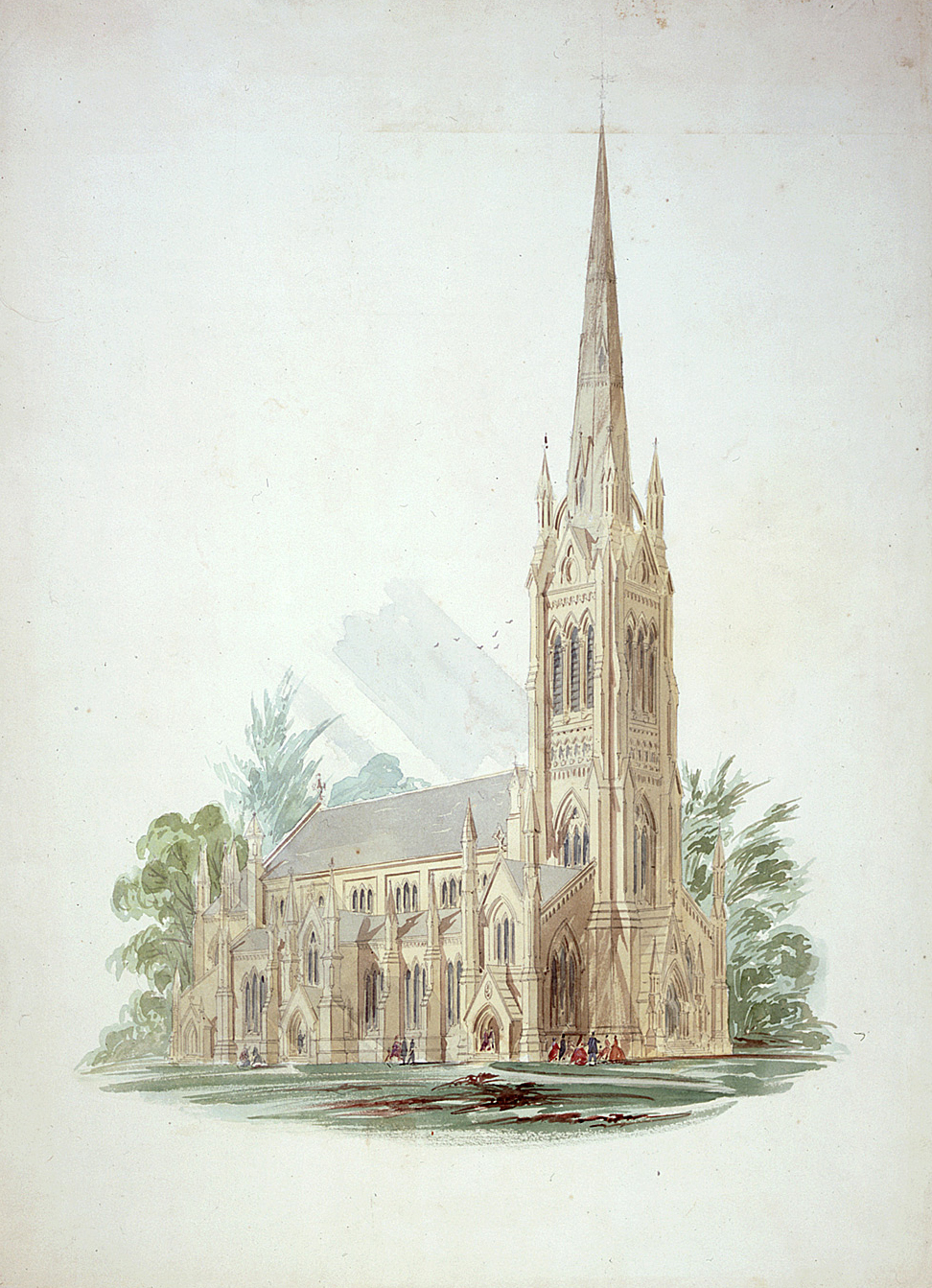 St. James Cathedral; watercolour persective, looking north. Toronto, Canada.